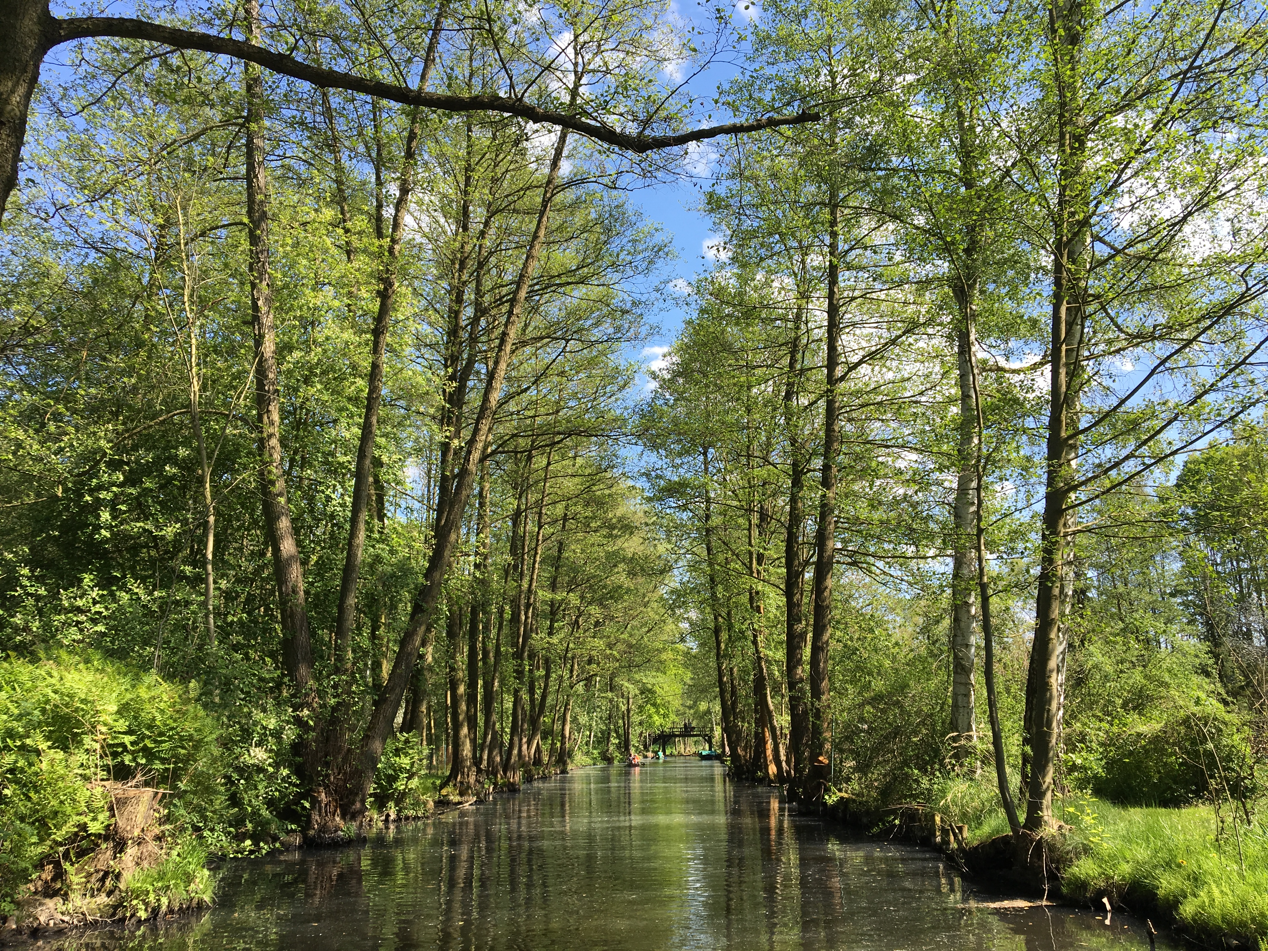 Canal in Spreewald near Lübbenau, Germany